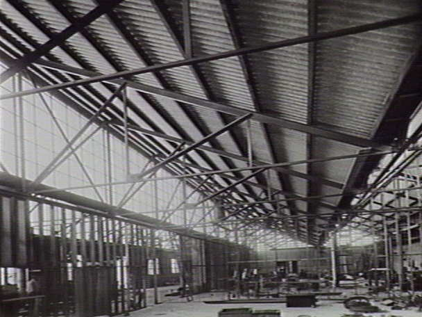 Summary Ford Plant, Geelong showing interior under construction Category:Images of Geelong